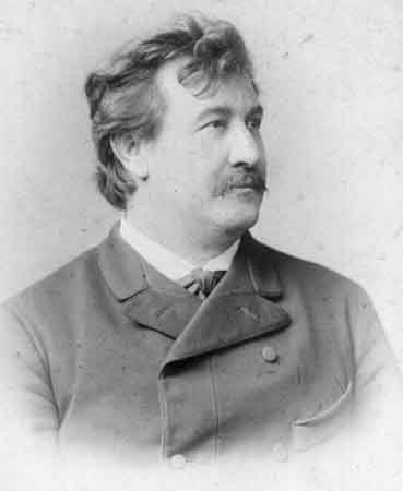 German opers singer Heinrich Vogl (1845—1900)